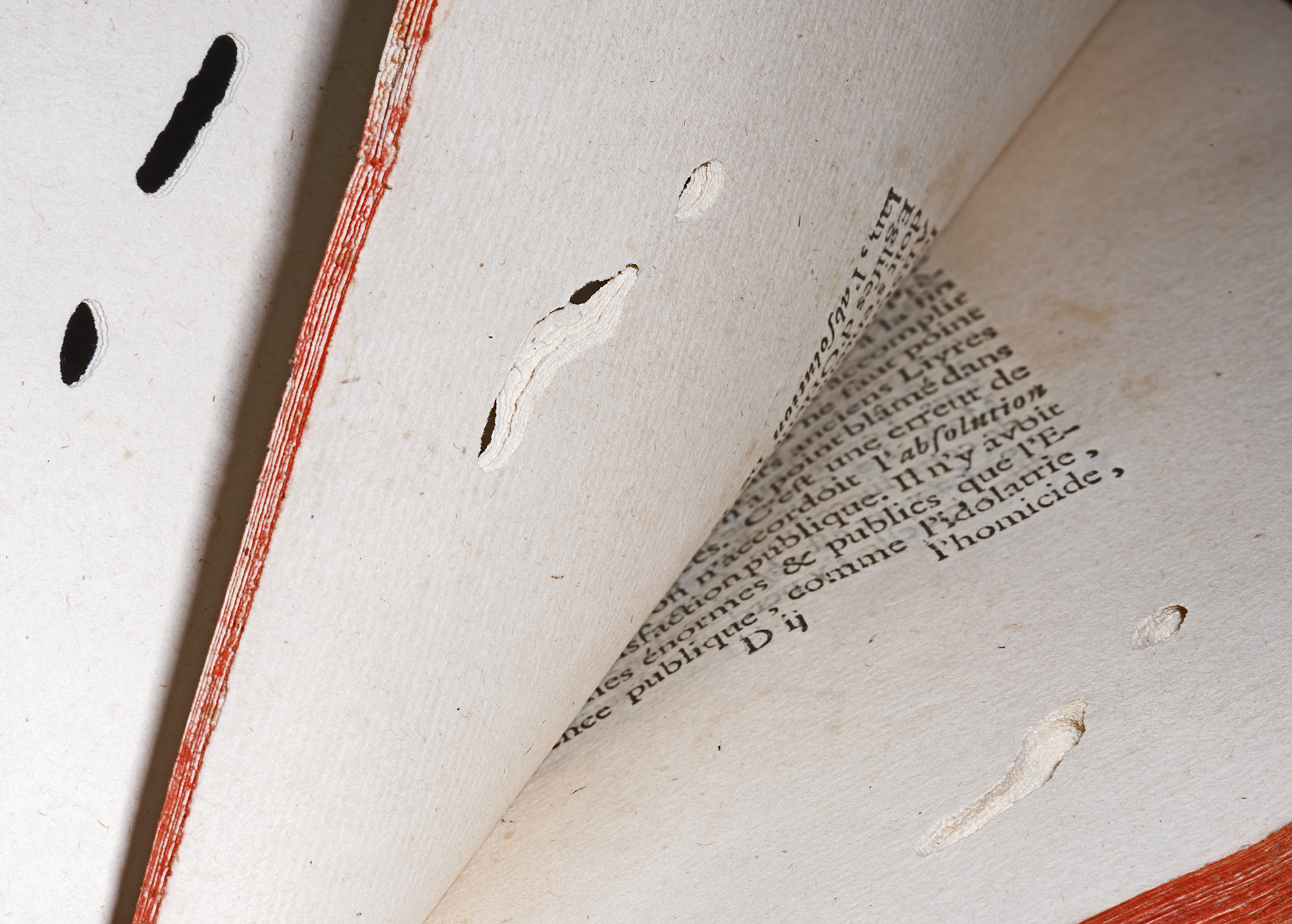 Drugstore beetle. Damage of a larva on a book of the eighteenth.